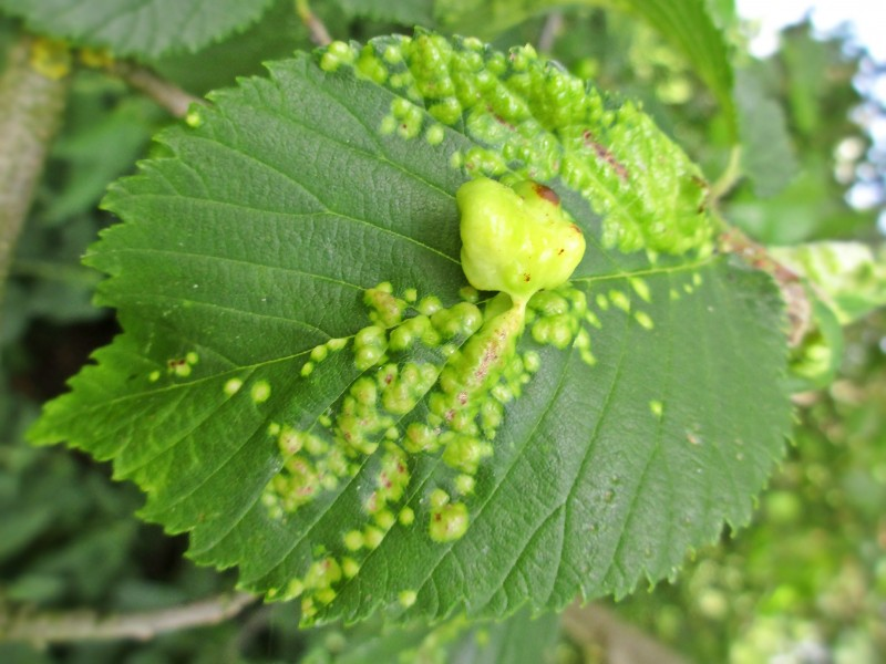 Tetraneura ulmi (Aphididae) - (gall), Elst (Gld) - De Park, the Netherlands